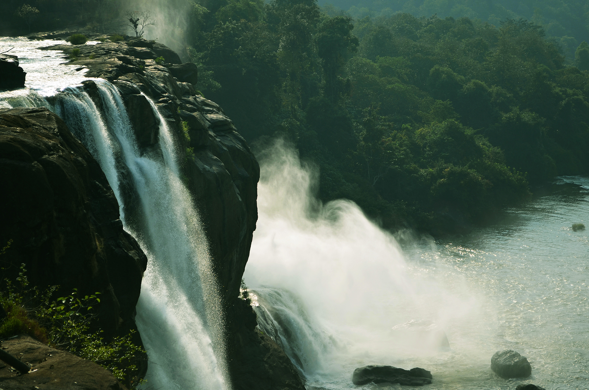 This photo was taken during a trip with three friends of mine.